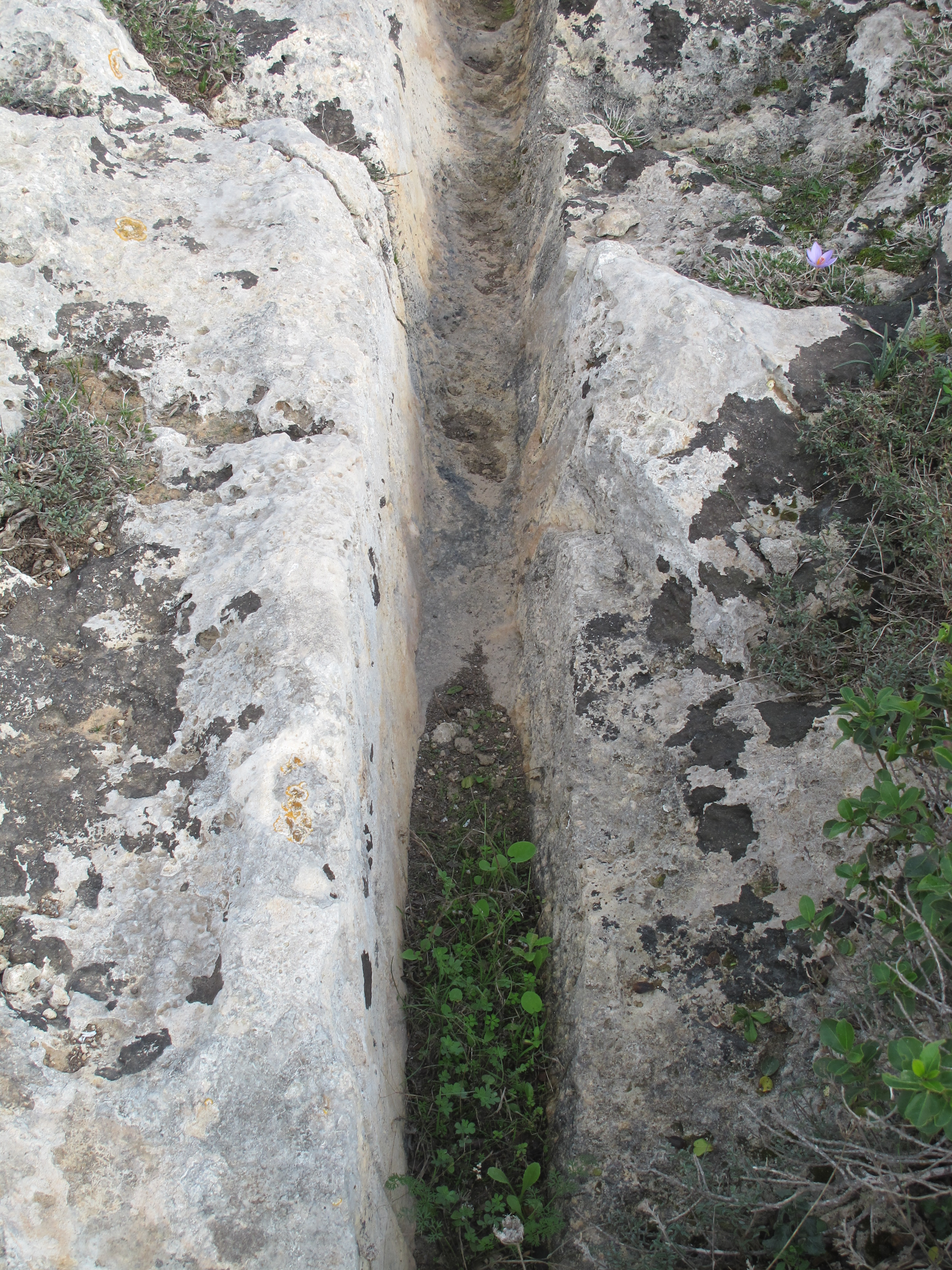 The so called "cart ruts" in the area of Għar il-Kbir